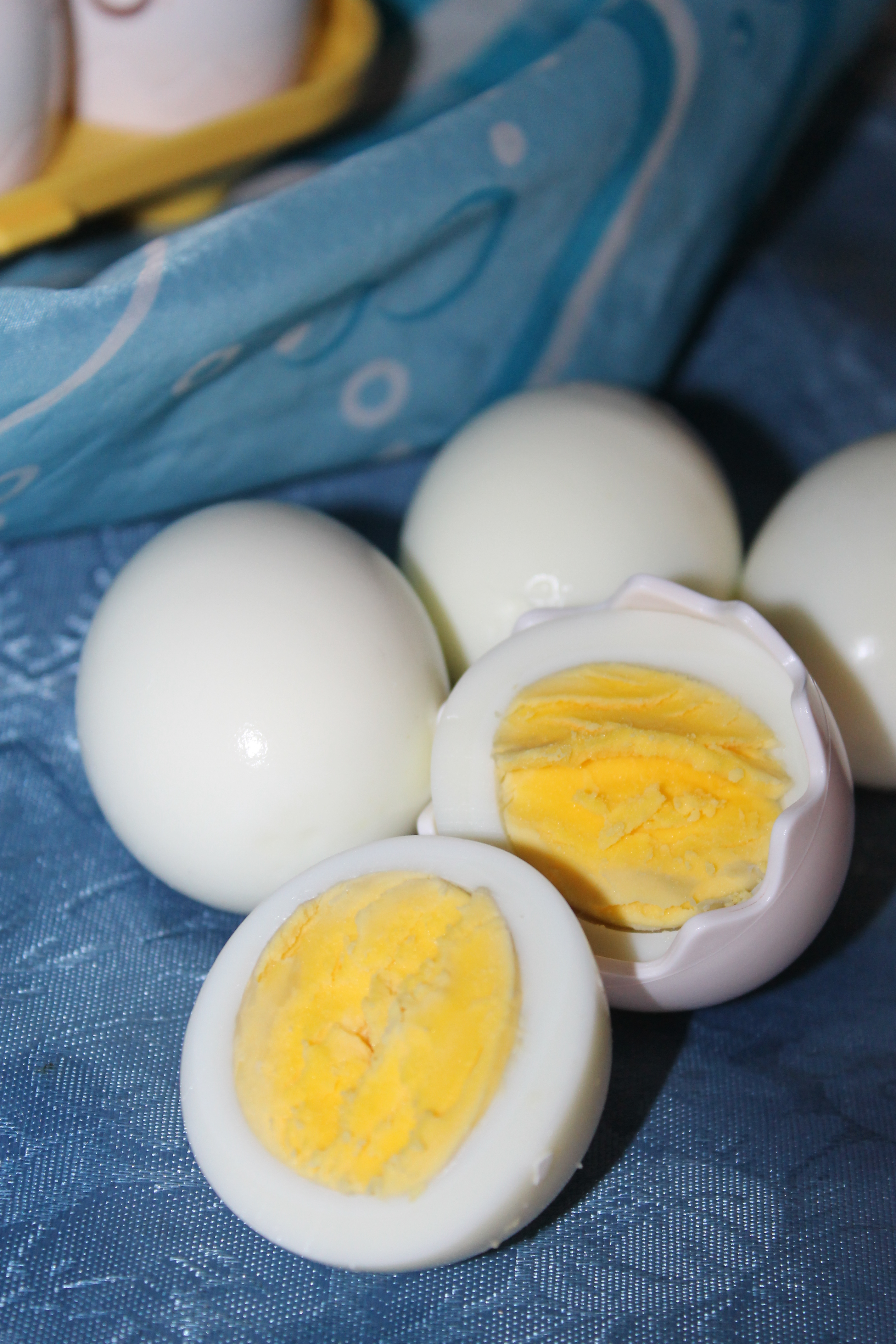 boiled eggs